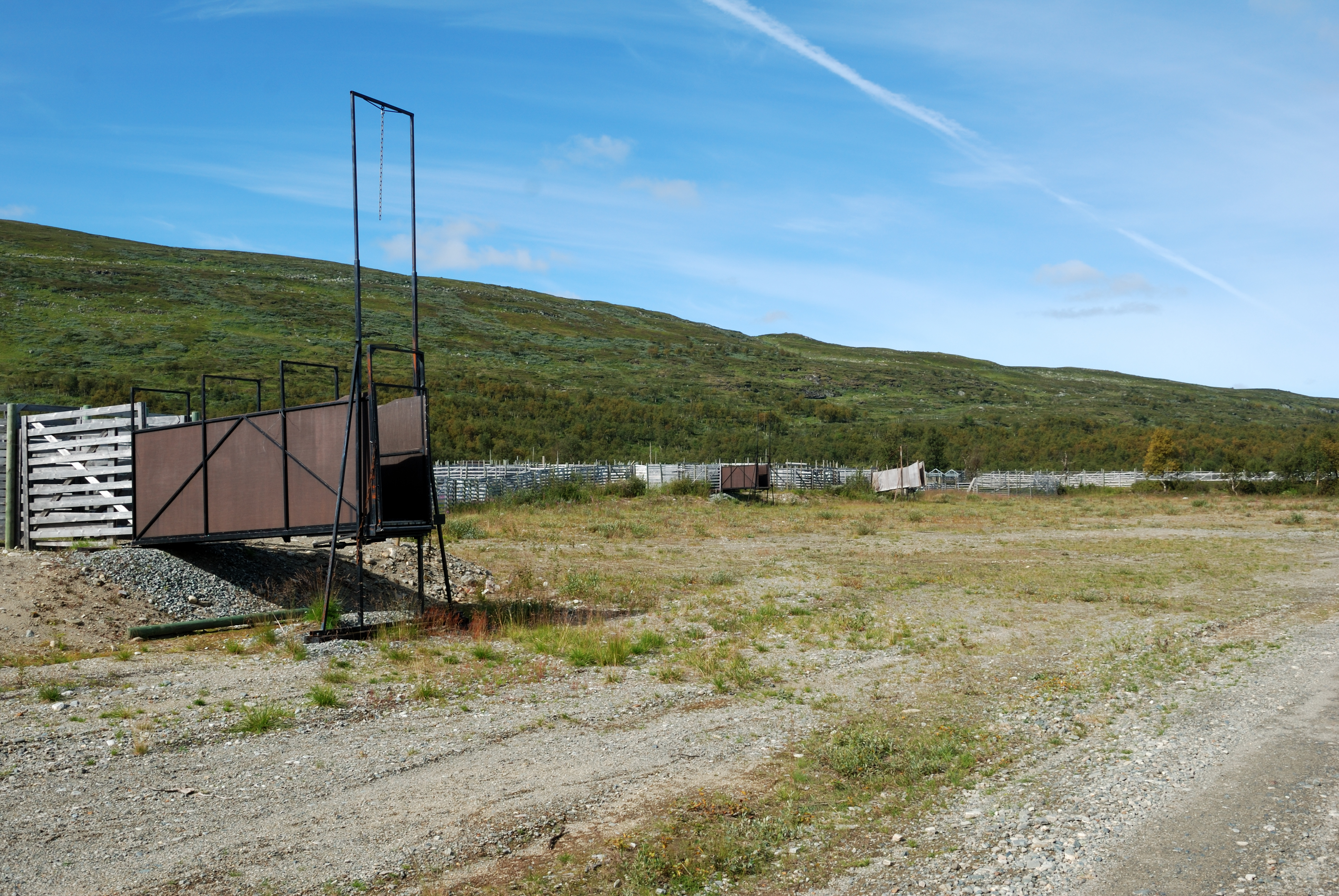 Ljungris, August 2011. Ljungris is owned by the Sámi (Handöldalens sameby) and used within their work with the reindeer.